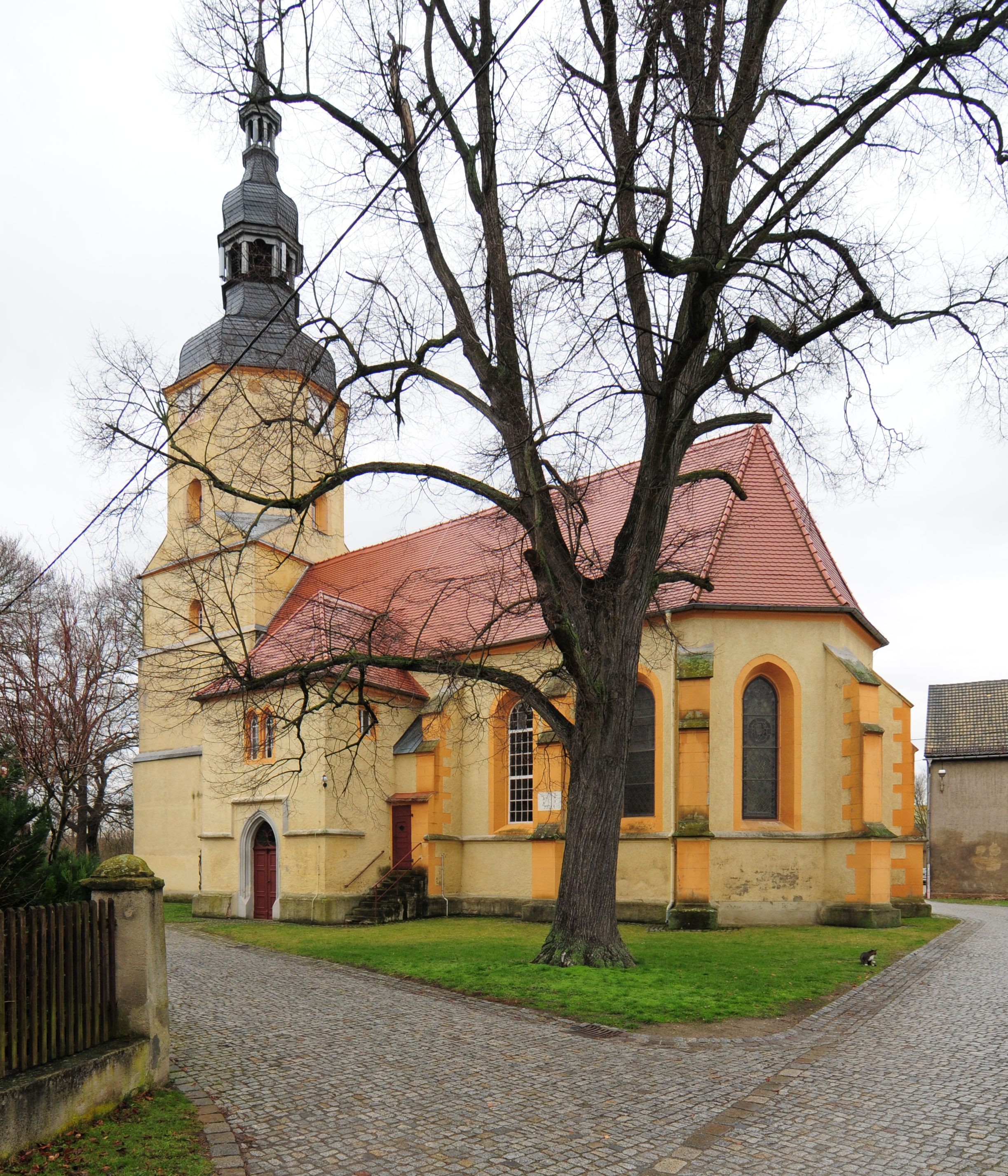 Treben, parish church, general view (district Altenburger Land, Free State of Thuringia, Germany)